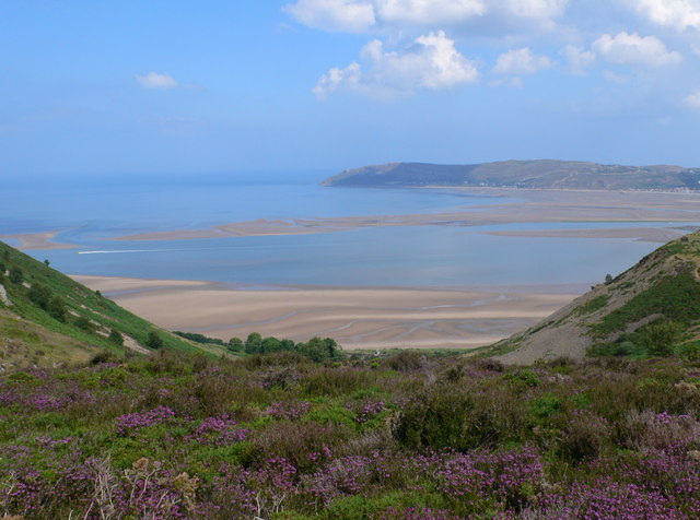 Between Alltwen and Penmaen Bach A view northwards from Conwy Mountain - the sandbanks of the Conwy river are clear. The Great Orme is beyond the sandbanks.